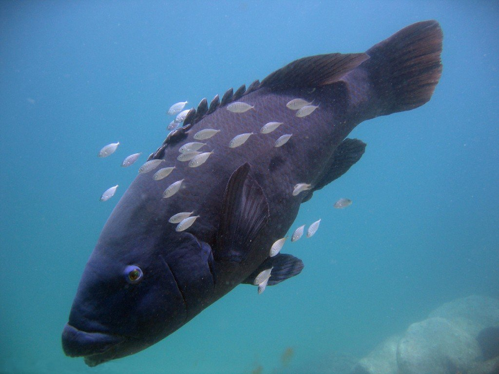 A male Eastern Blue Groper (Achoerodus viridis) with escorts. Shelly Beach, Manly, NSW156766944